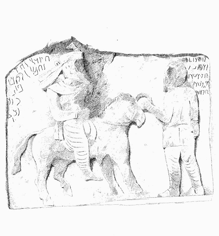 Parthian relief of either King Gotarzes Ist or II investiture at Sar-e Pol-e Zahab, Iran.